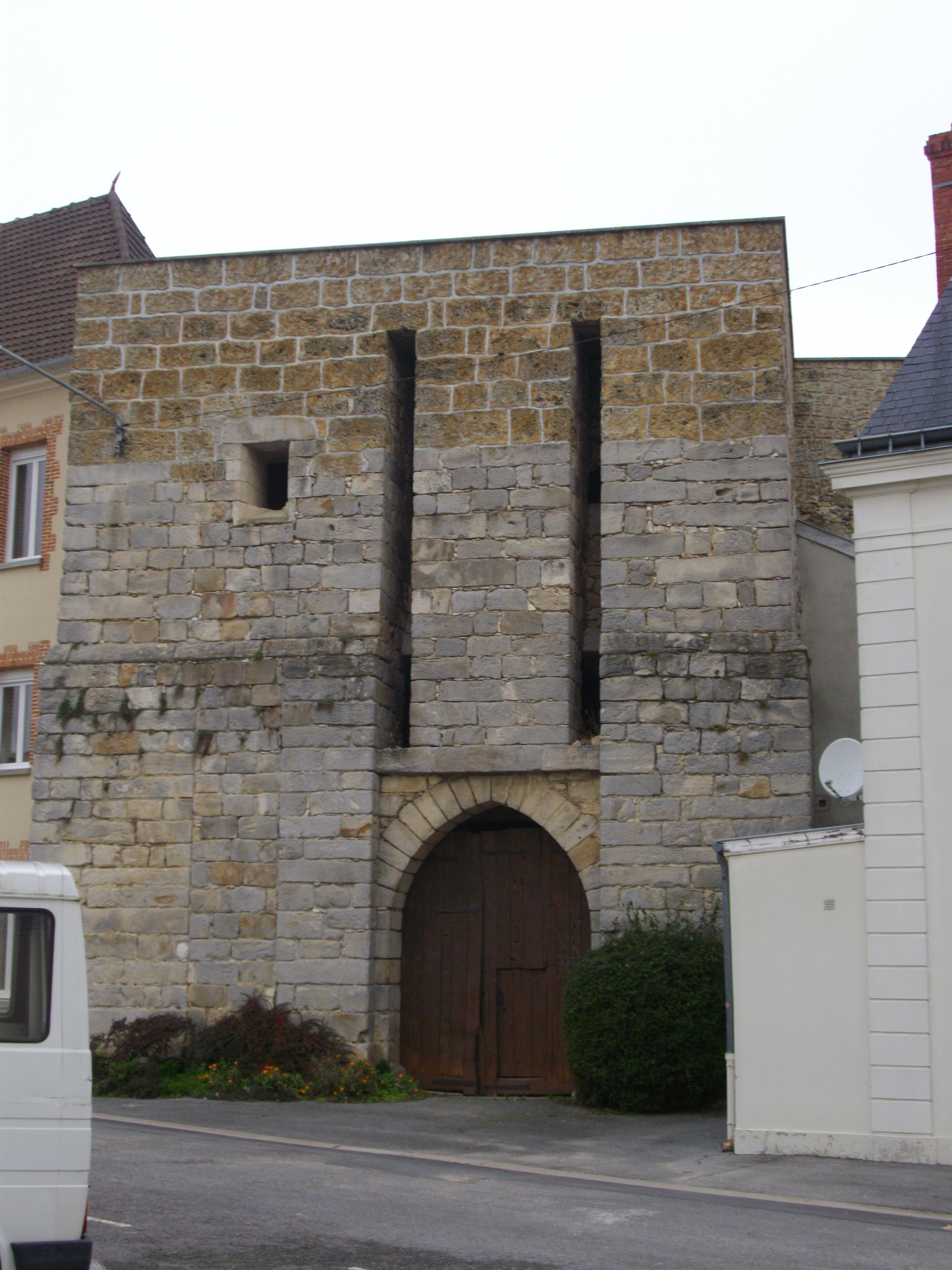 Castles of Troissy (Marne, France)